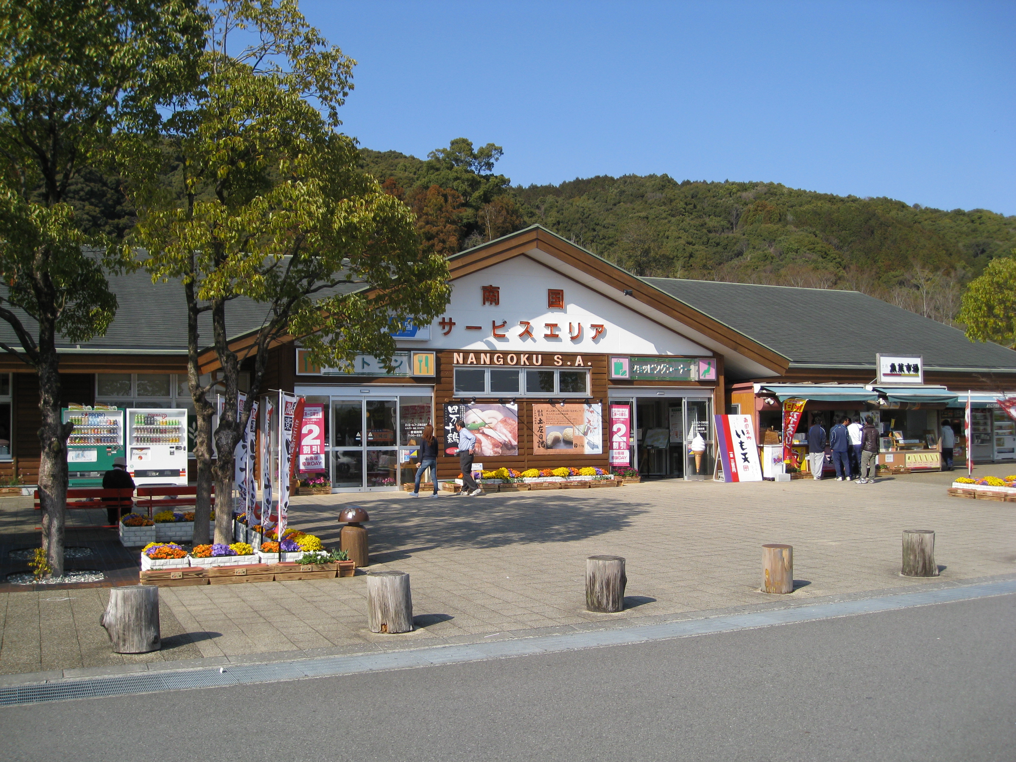 NANGOKU SERVICE AREA (Nobori) in Nankoku, Kochi, Japan. It is on the KOCHI EXPRESSWAY.